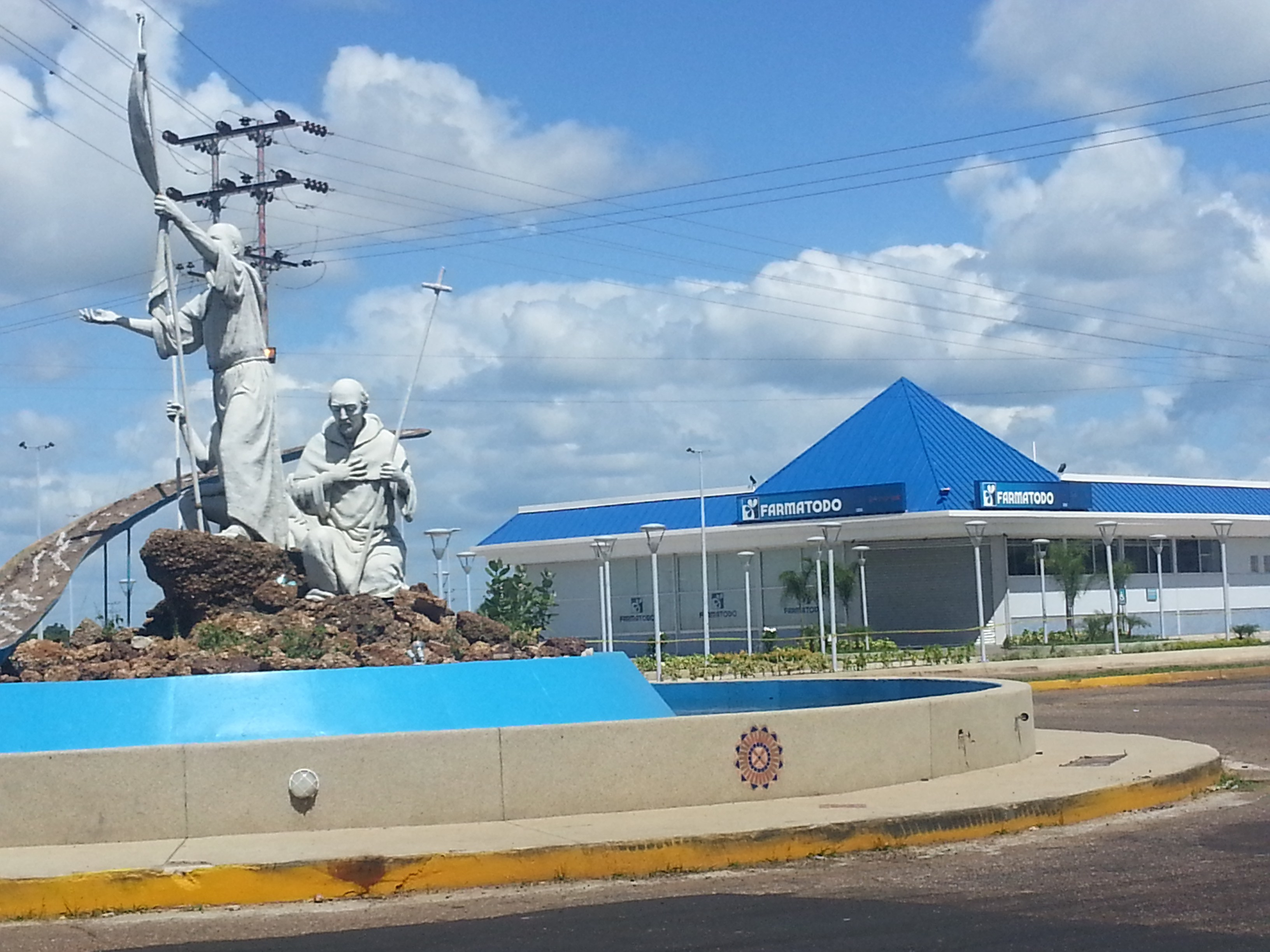 el farmatodo de calabozo